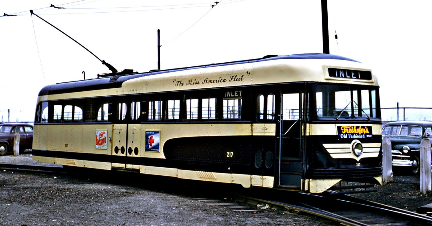 Tram in Atlantic City, New Jersey, 1950s. "The Miss America Fleet".